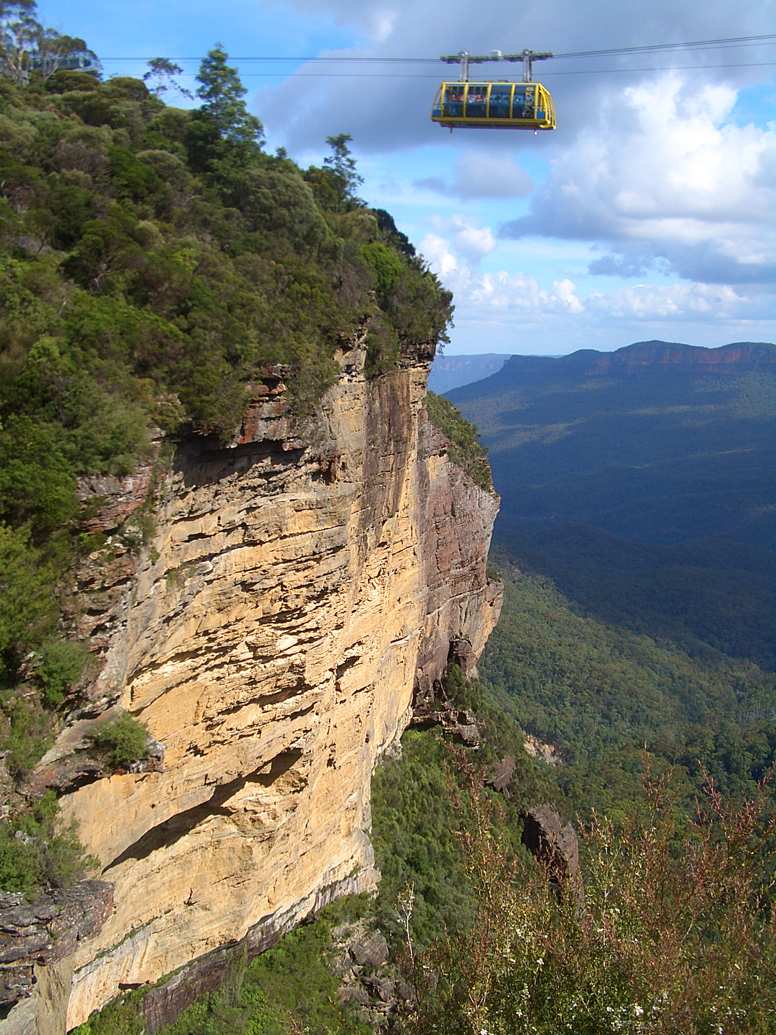 A Scenic Skyway cab has just left its station (Katoomba, NSW)